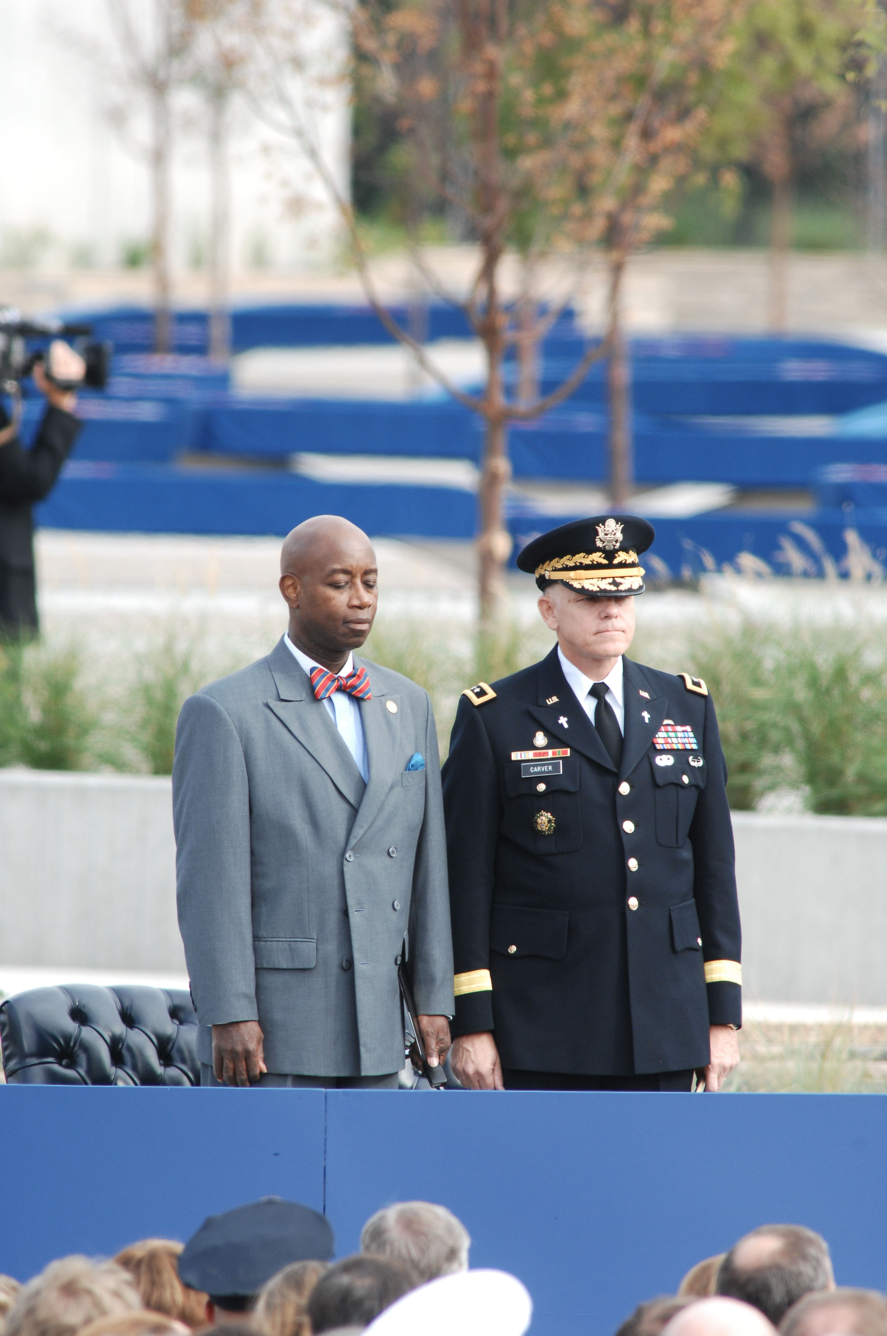 Retired U.S. Navy Rear Adm. Barry C. Black, left, the chaplain of the U.S. Senate, and Maj. Gen. Douglas L. Carver, the U.S. Army chief of chaplains, take their places on the dais at the Pentagon Memorial dedication ceremony Sept. 11, 2008. The national memorial is the first to be dedicated to those killed at the Pentagon on Sept. 11, 2001. The site contains 184 inscribed memorial units honoring the 59 people aboard American Airlines Flight 77 and the 125 in the building who lost their lives that day. U.S. Air Force photo by Andy Morataya